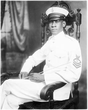 Portrait of Bandmaster Alton Augustus Adams, first African American bandmaster in the U.S. Navy, scanned by Mark Clague (Professor University of Michigan) from his private collection. Photo is dated 1922 and thus in the public domain. Scan has been corrected and edited in photoshop to remove stains and spots.